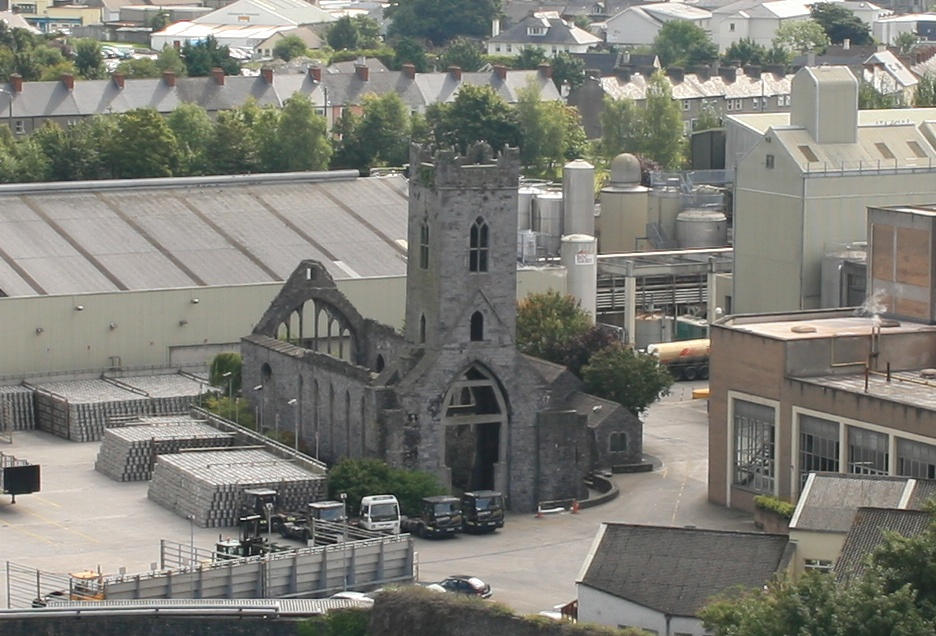 Kilkenny, County Kilkenny, Ireland Kilkenny Friary as seen from the round tower at St. Canice's Cathedral.